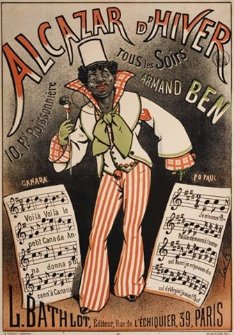 Concert poster showing French singer and dandy ("gommeux") Armand Ben at the Alcazar cabaret, Paris, 1873.